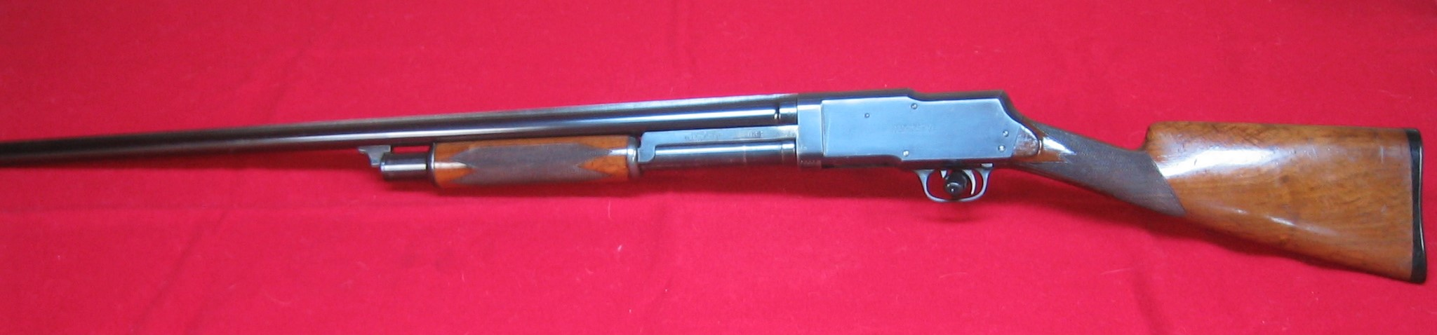 Stevens 522 Trap Gun (1913-16)